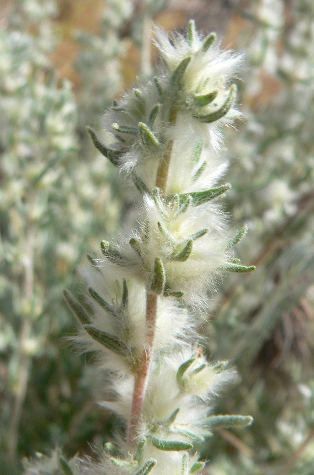 Close-up of blooming Krascheninnikovia lanata - the 'Winterfat' plant. Growing in the southern end of Red Rock Canyon, near Blue Diamond, southern Nevada.